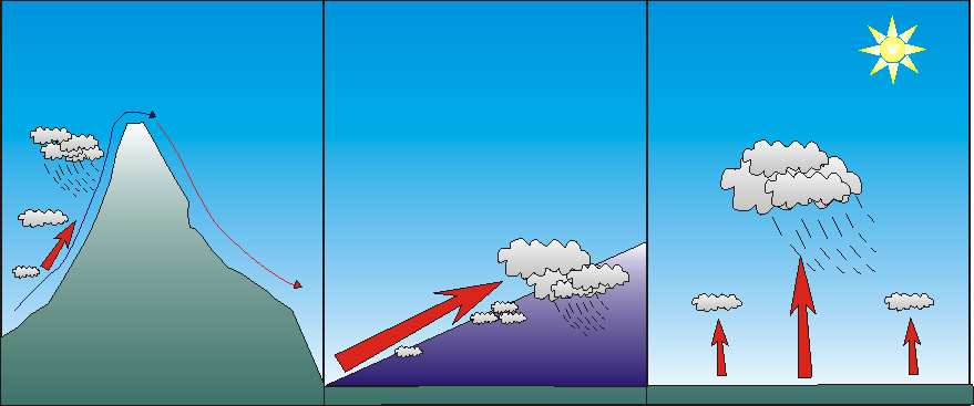 Three drawings showing orographic, convection and frontal types of creation of rain, no text.